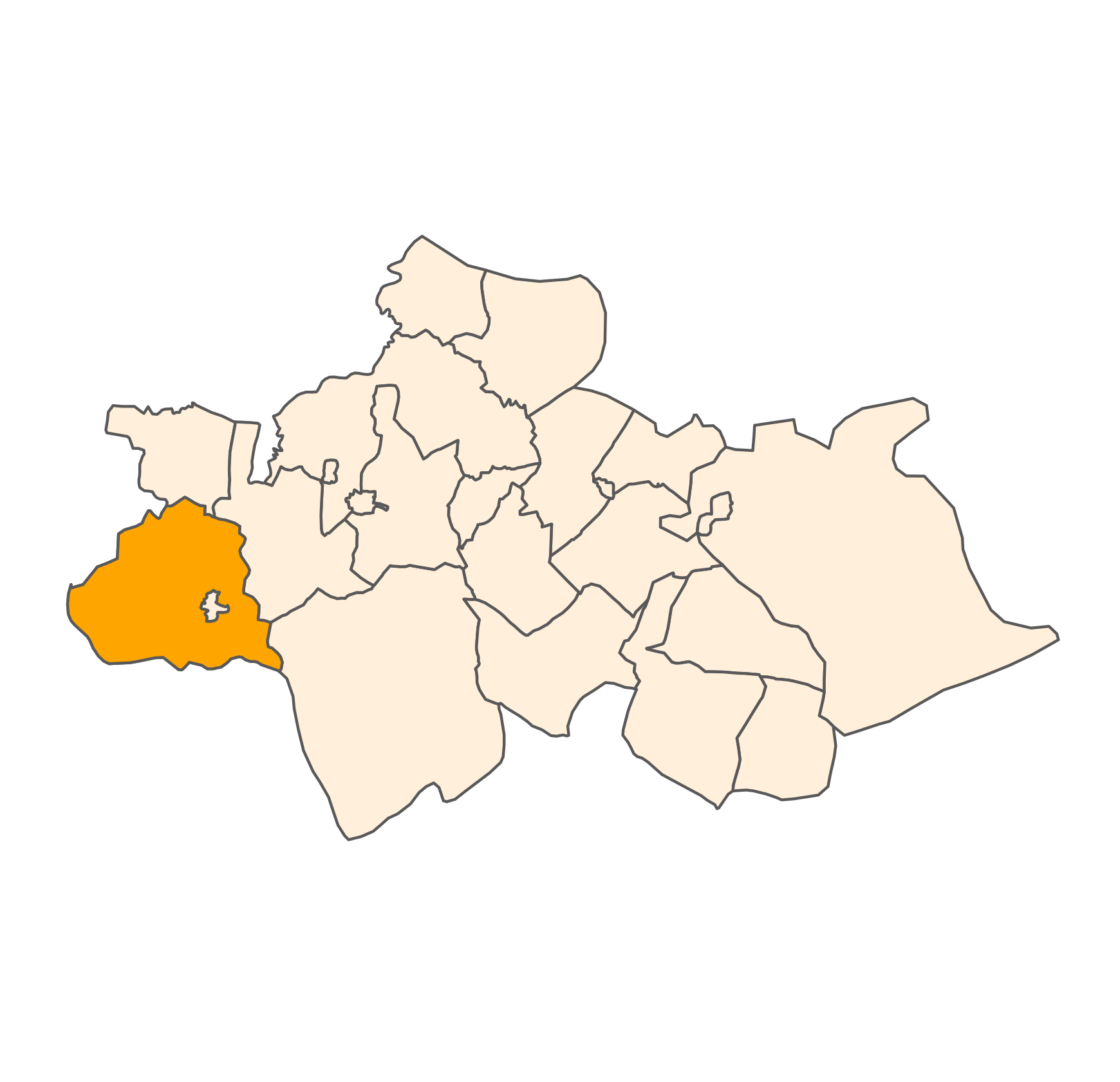 Commune (Orange), Sefrou Province (Antique White)